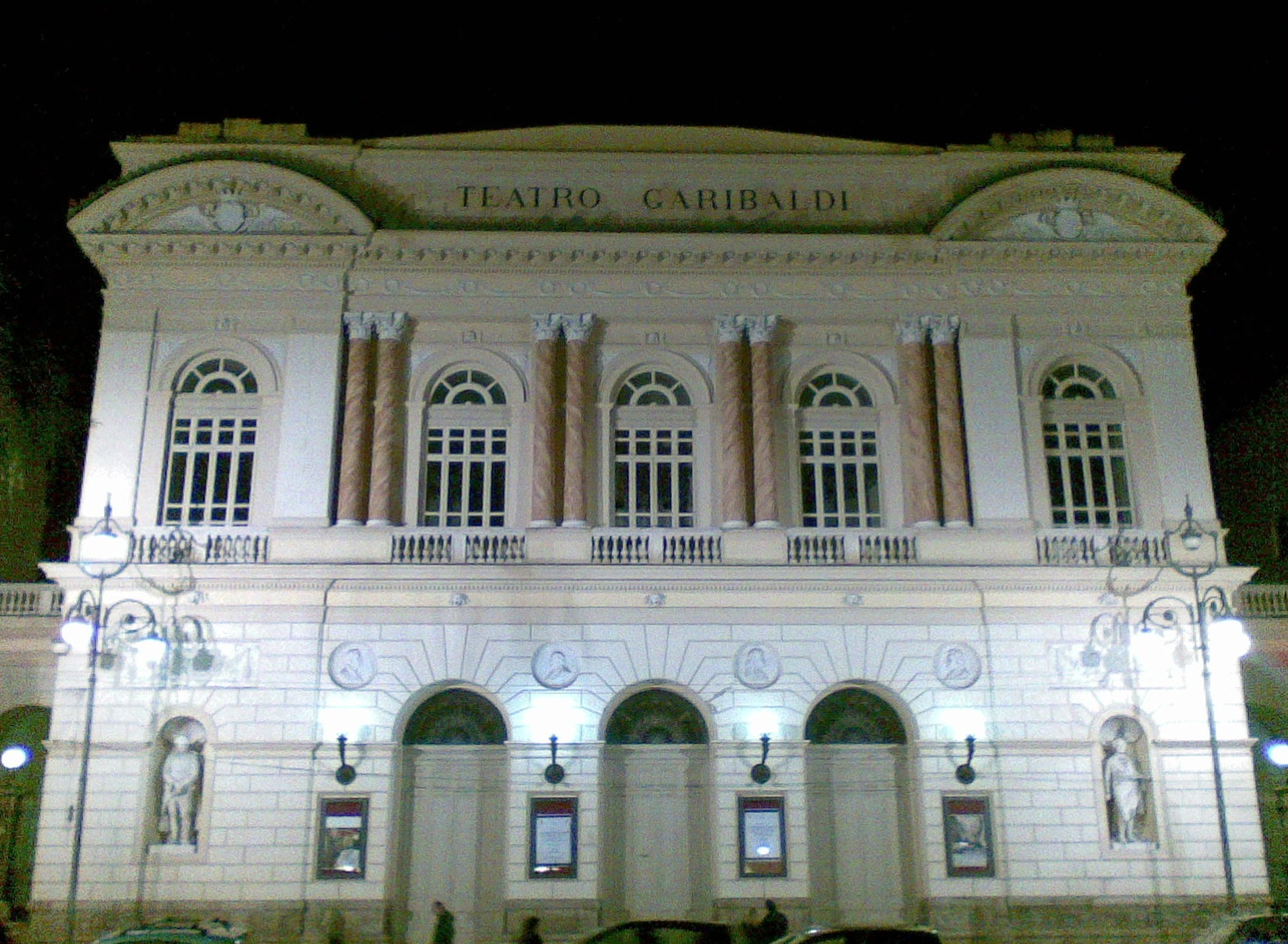 Teatro Garibaldi (Garibaldi Theatre) in Santa Maria Capua Vetere